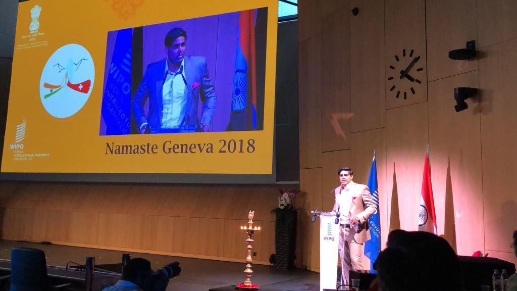 Acknowledged by India at UN